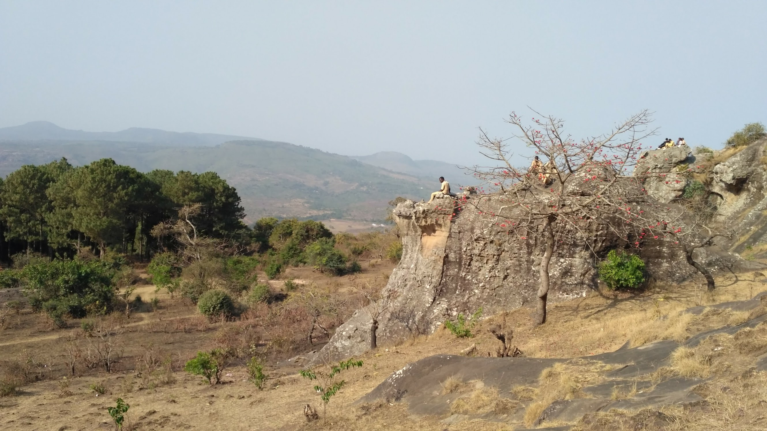 Rocks near the SIB hotel